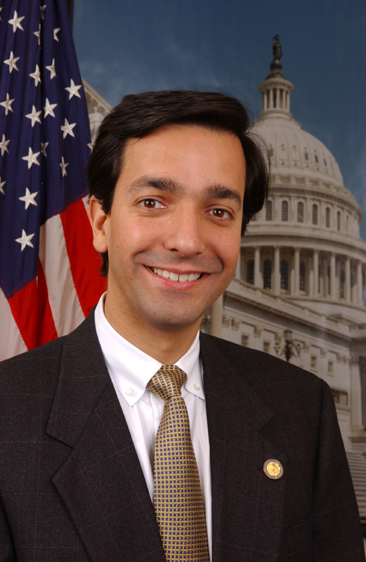 Luis Fortuño, member of the United States House of Representatives